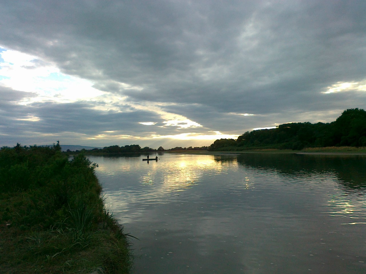 Нохчийн: Нохчийчоь This work is free and may be used by anyone for any purpose. If you wish to use this content, you do not need to request permission as long as you follow any licensing requirements mentioned on this page.